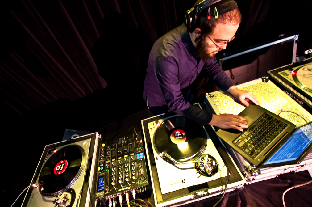 Diwon performing in Melbourne, Australia. Photo taken by Andrew Harris (